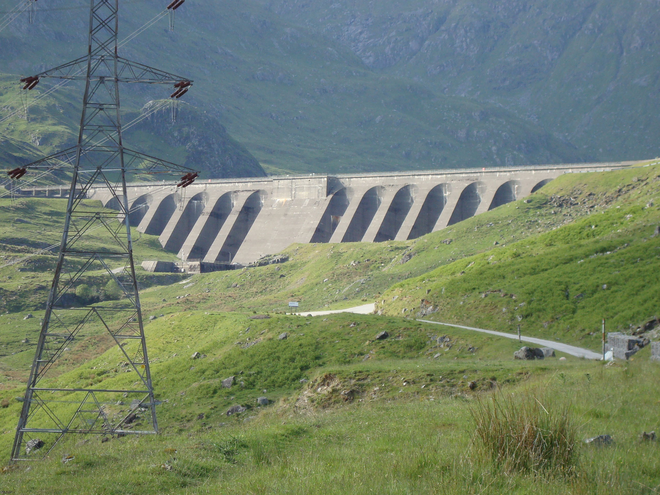 Taken by myself in June 2008 while walking up Ben Cruachan to the reservoir. This is the dam built to enable generation of the hydroelectric